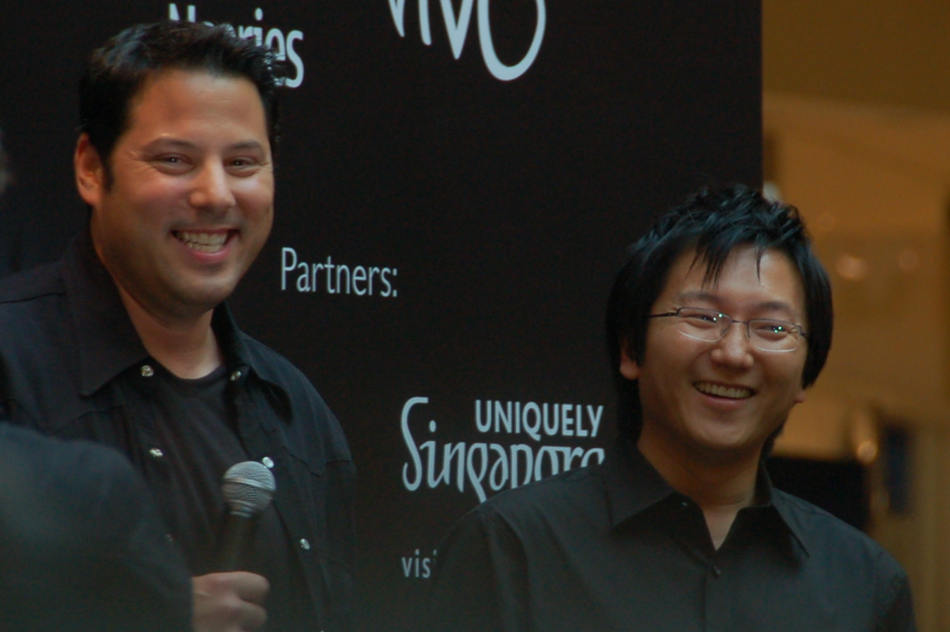 Parkman and Hiro Nakamura smiles for my camera Went down to Singapore on Friday morning just to see the 4 characters of HEROES appear live at Vivo City Singapore